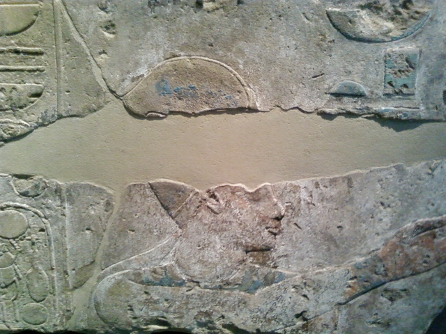 Relief representing the king Amenhotep IV - 18th dynasty of Egypt